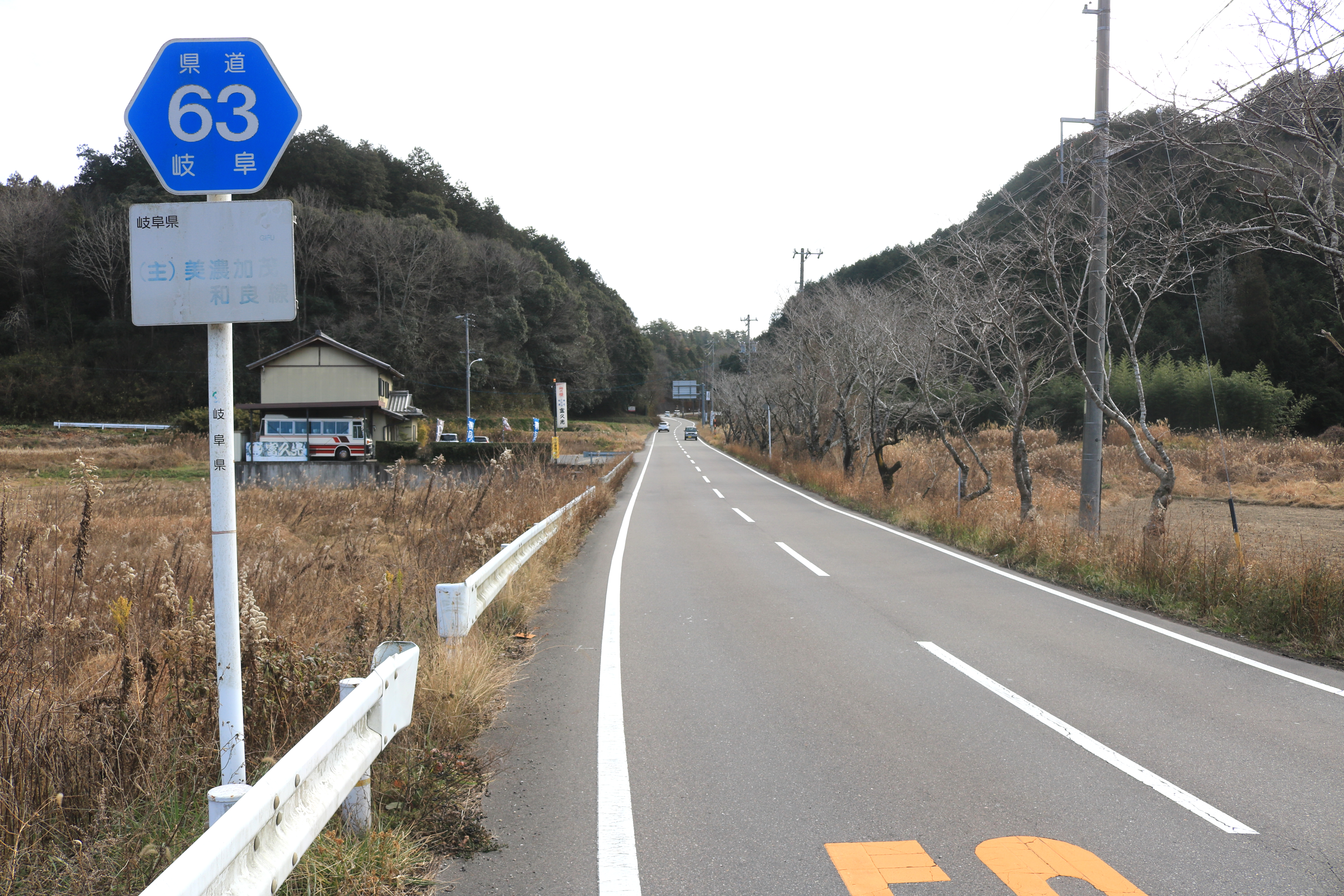 Gifu Prefectural Road Route 63 in Kamino, Seki, Gifu Preecture, Japan. Canon EOS Kiss X8i